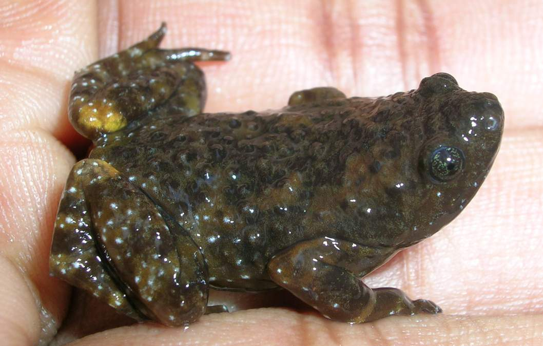 Unidentified frog species from Wynaad. Believed to be of genus Ramanella. Ramanella anamalaiensis 2005